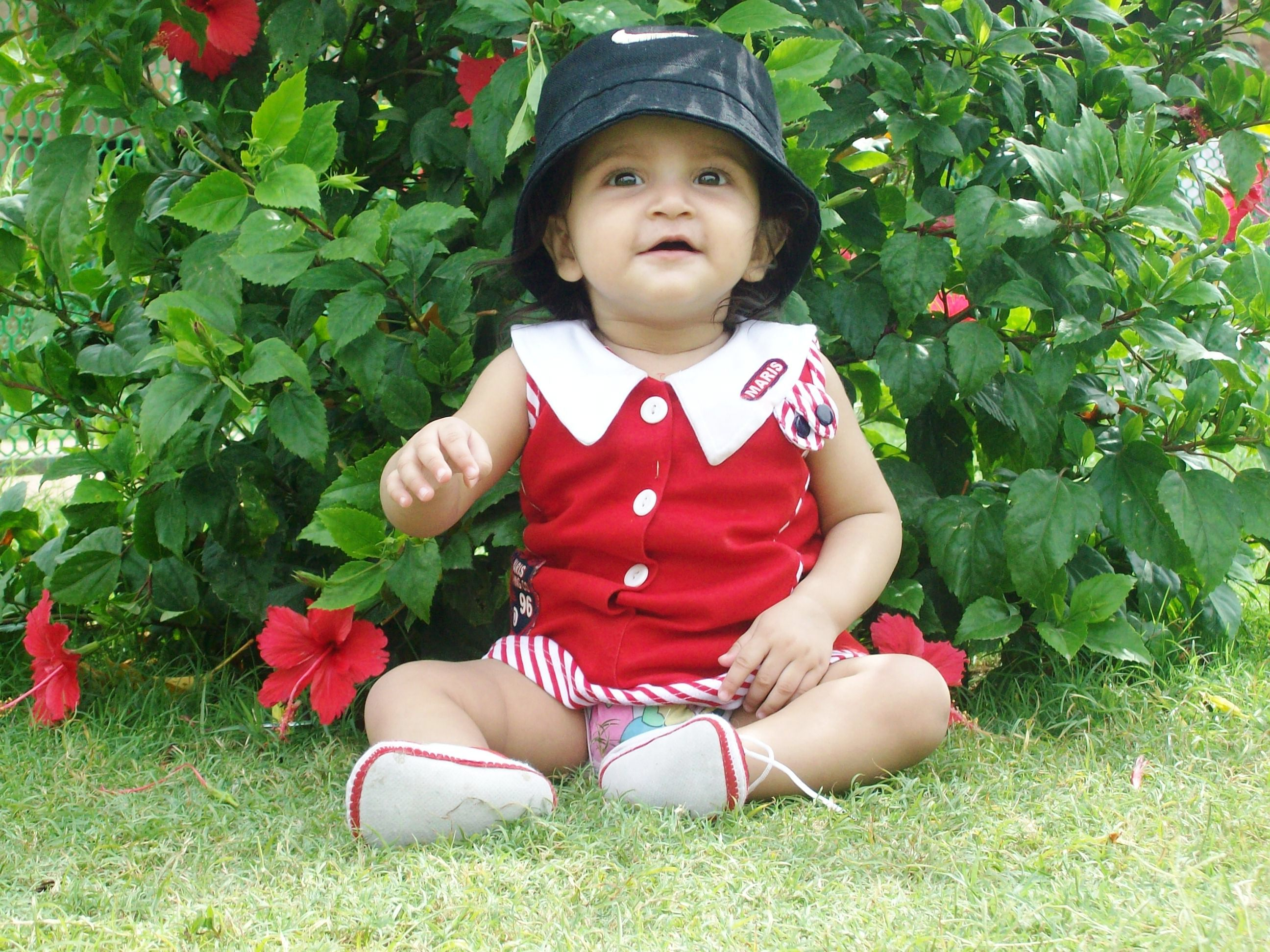 Park neat Qutub Minar - New Delhi Children of India